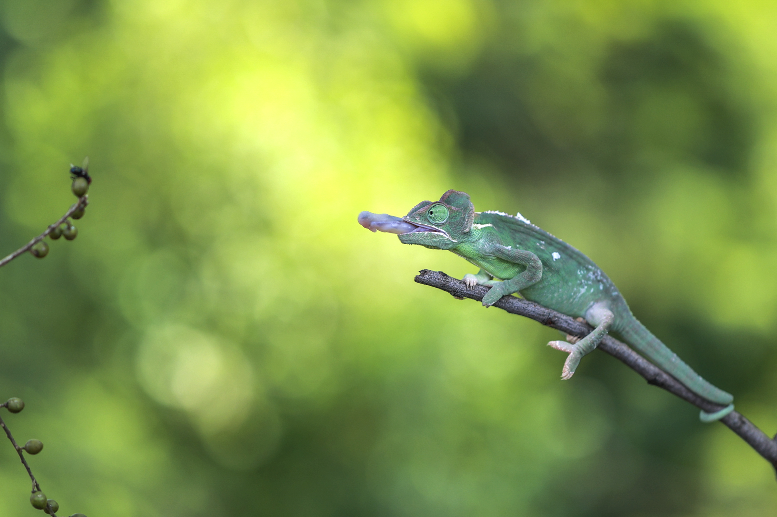 A chameleon start to catch its prey by extending his tounge